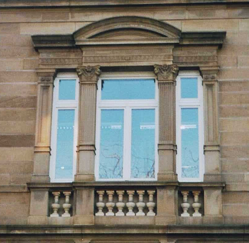 Heilbronn